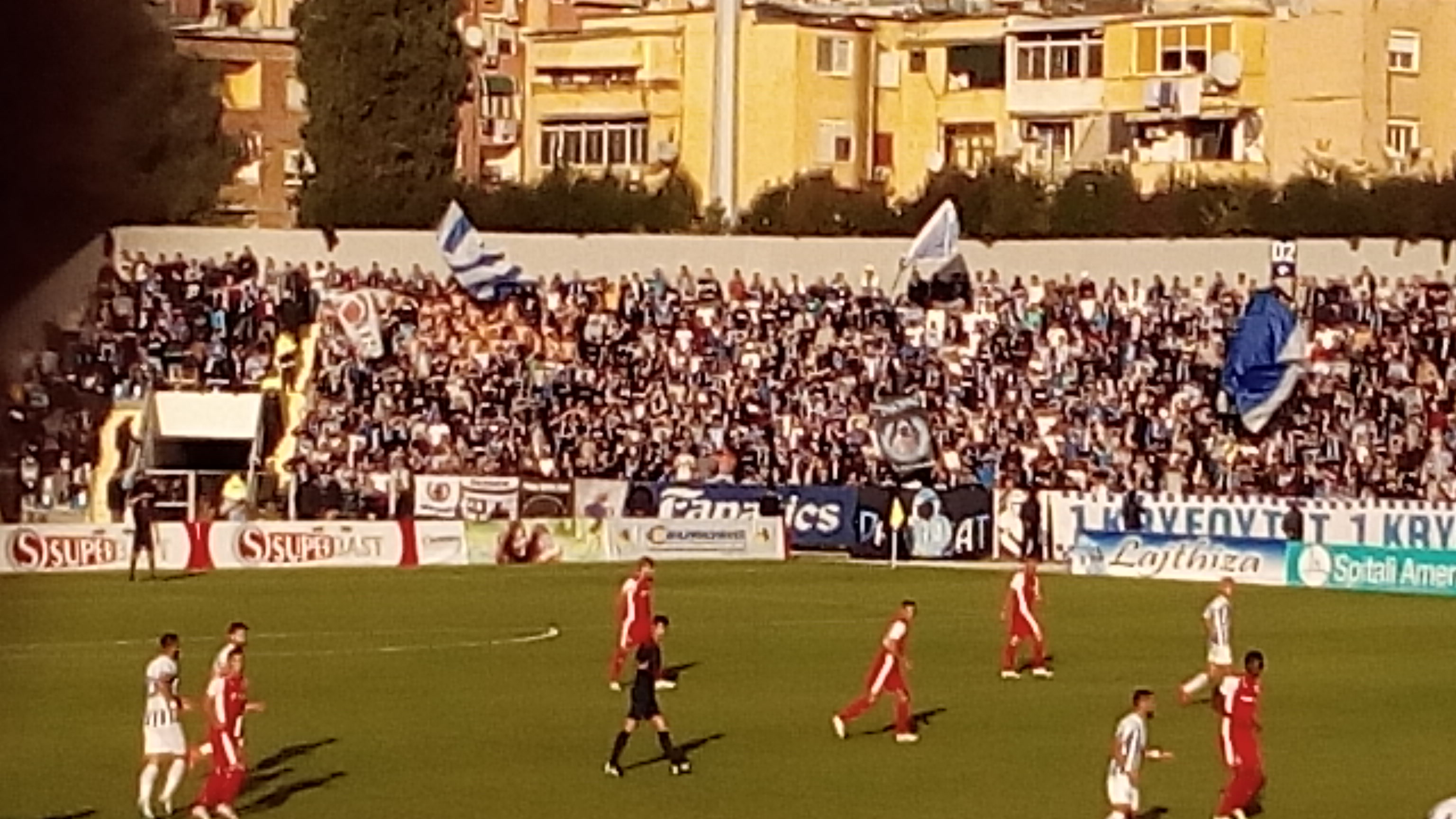 The match.